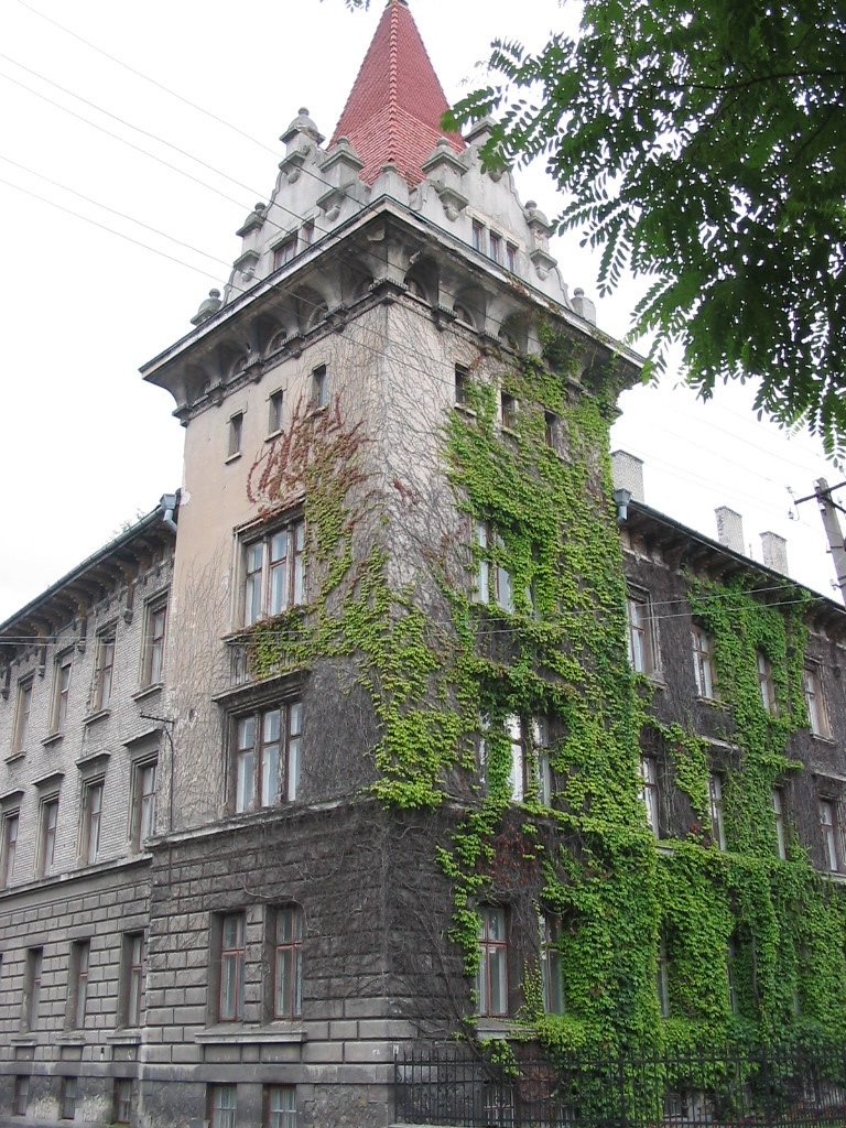 Former court building (now college) in Brody, western Ukraine